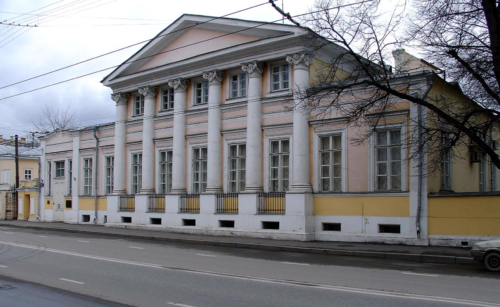 44, Bolshaya Nikitskaya Street, Moscow. Built prior to 1817 (a small annex on the left side added in 1855).